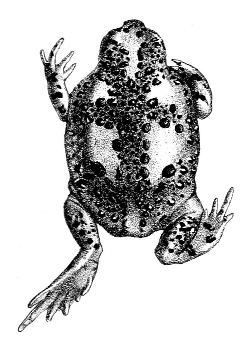 Notaden bennettii